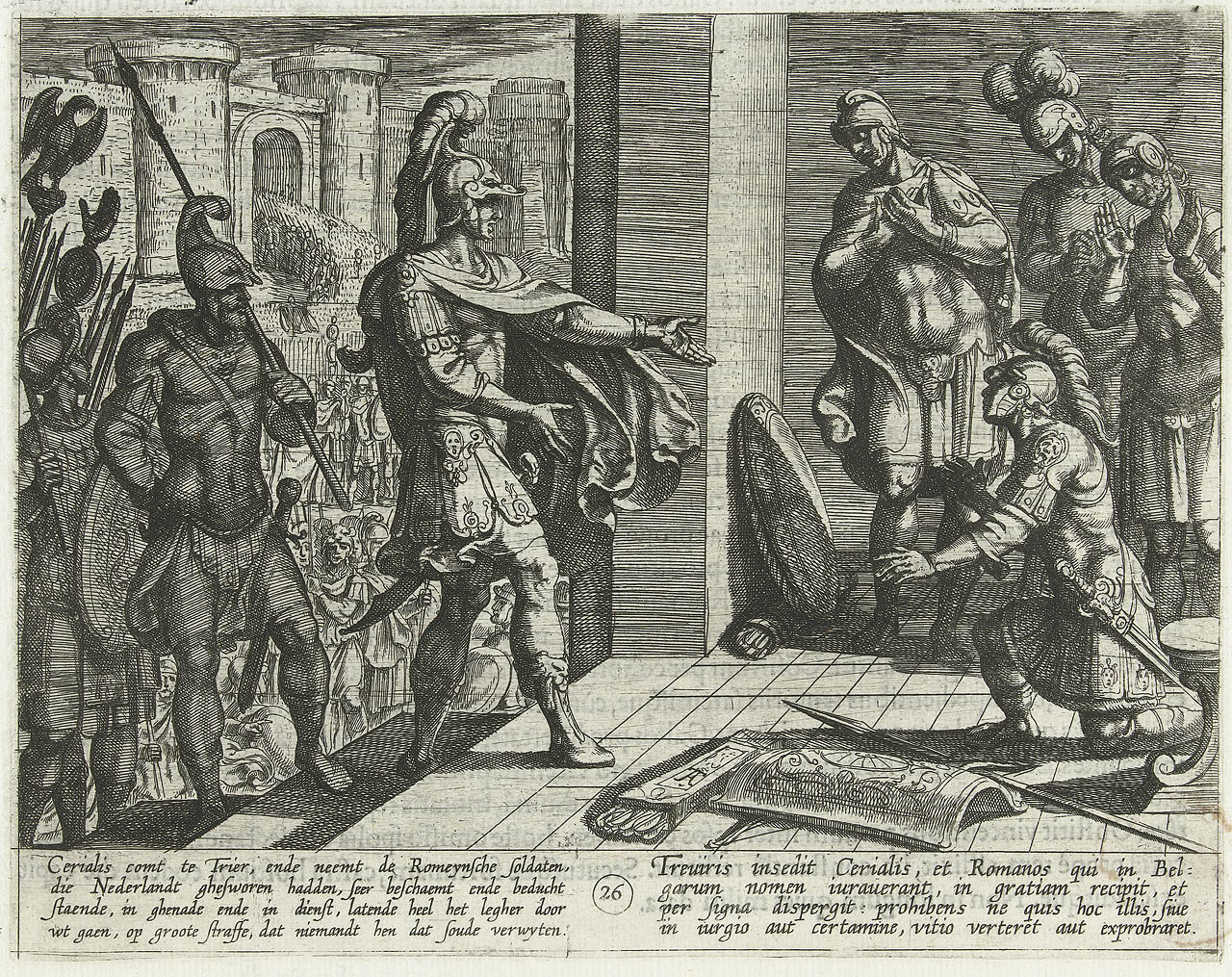 Antonio Tempesta (possibly after Otto van Veen). Cerialis grants mercy to soldiers that went over to the enemy, 69-70 [from the Revolt of the Batavi series]. 1612. Etching. 165 × 210 mm. Amsterdam, Rijksmuseum Amsterdam (inv.nr. RP-P-OB-77.933).